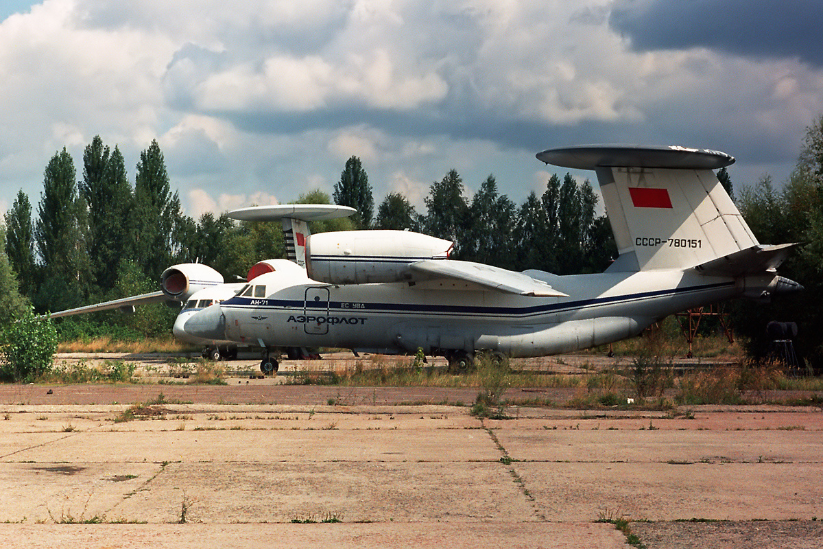 Both flying prototypes of An-71 AWACS aircraft in 1994